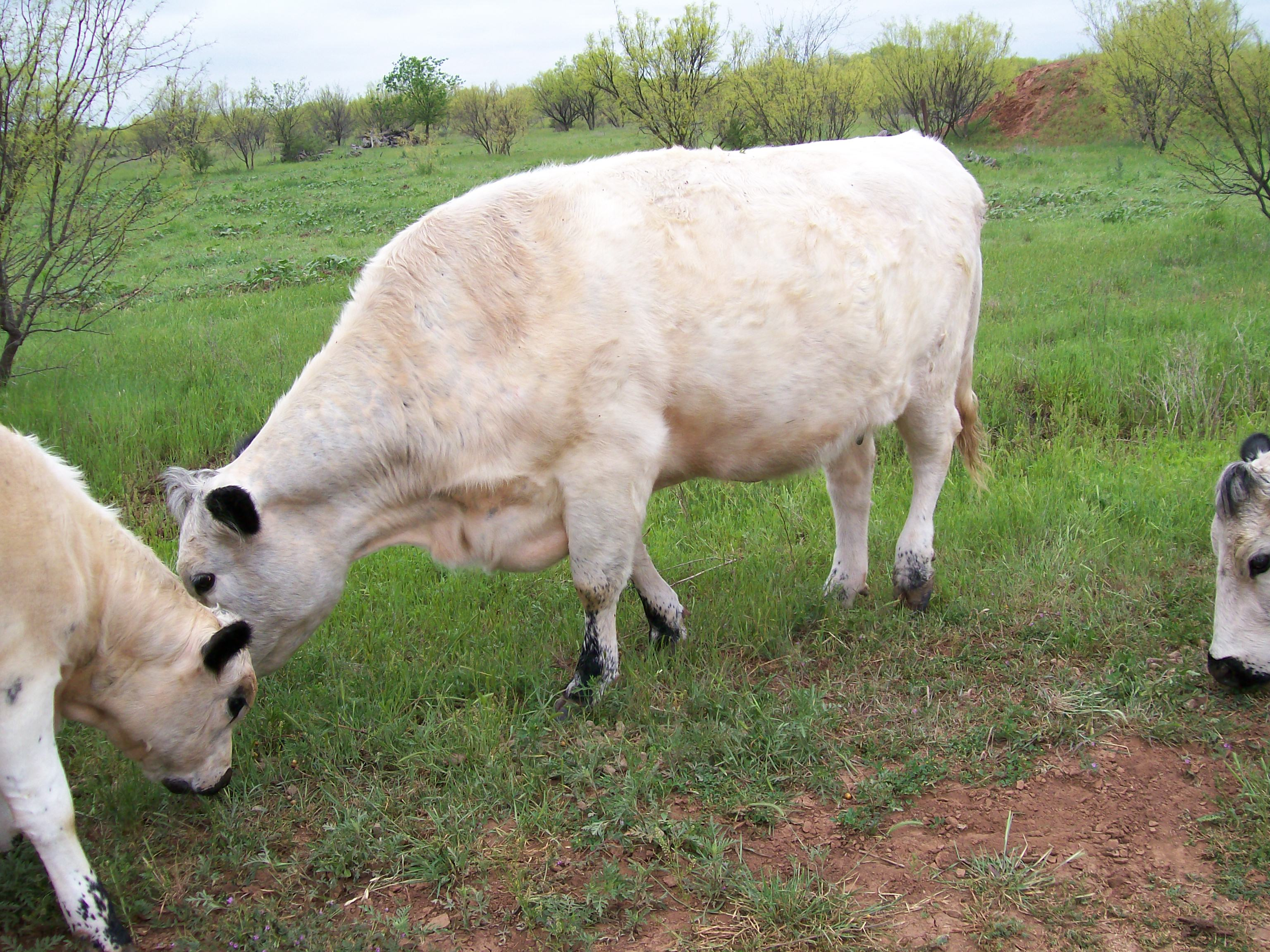 A British White female. – This is a picture I took at my ranch in Texas in 2007. These cows can be entirely raised on grass. I do give them some cubes and this really makes "pets" out of them.